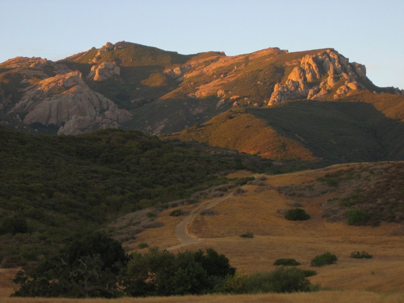 Mount Boney in the Santa Monica Mountains from the Newbury Park, Wendy Street trail head, Santa Monica Mountains National Recreation Area.